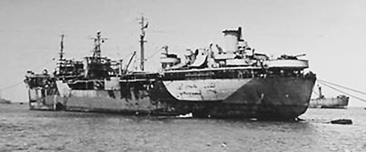 Picture of the fleet oiler USS Ponaganset (AO-86) taken between 1943 and 1946.